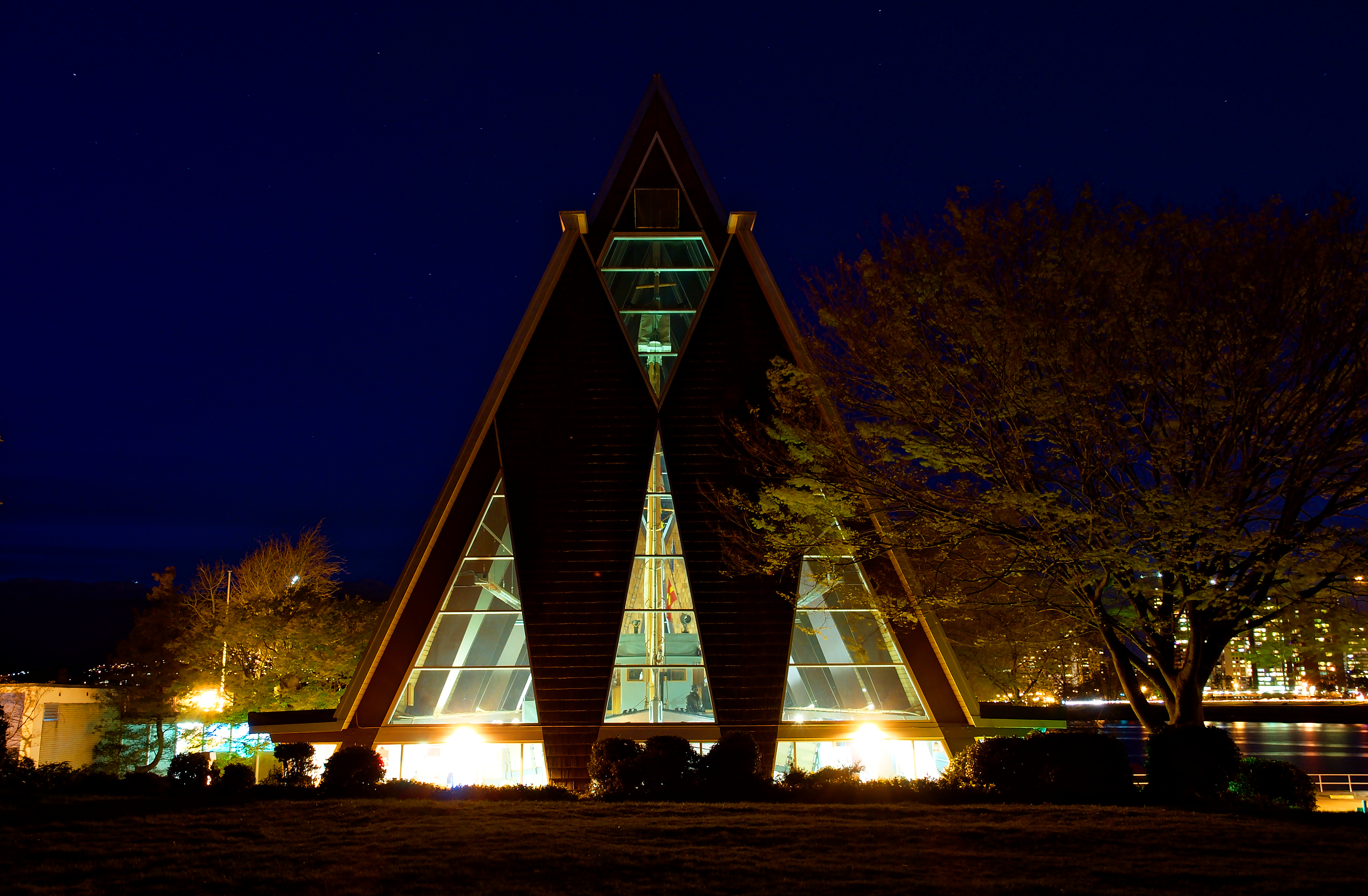 Vancouver Maritime Museum located in Vanier Park, Vancouver British Columbia.